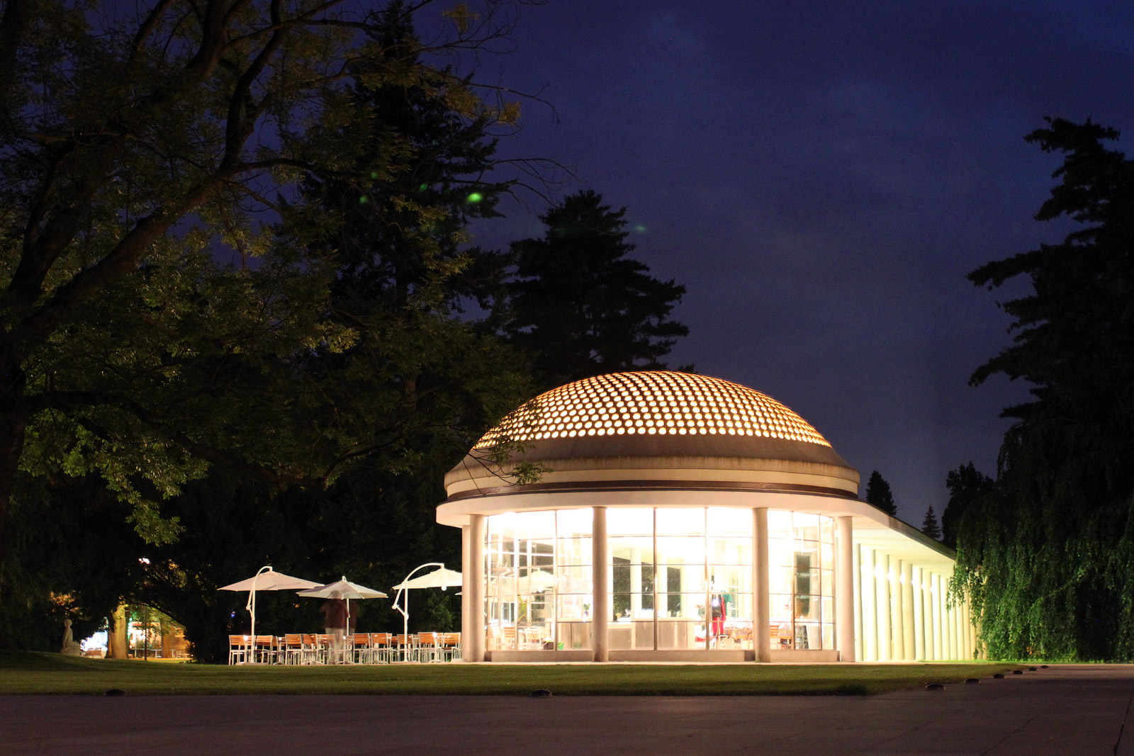 Colonada in Podebrady at night